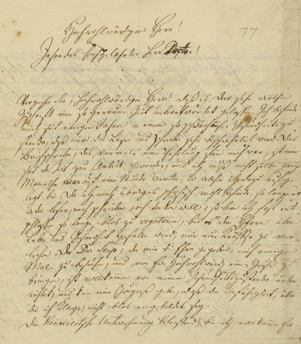 Description: Letters from and to Moses Mendelssohn (originals and copies) Dimensions: 5 letters, 22 pages Date: 1770-1785 Persistent URL: Repository: Leo Baeck Institute, 15 West 16th Street, New York, NY 10011 Call Number: AR 11457 Rights Information: No known copyright restrictions; may be subject to third party rights. For more copyright information, click here. See more information about this image and others at CJH Digital Collections. Digital images created by the Gruss Lipper Digital Laboratory at the Center for Jewish History